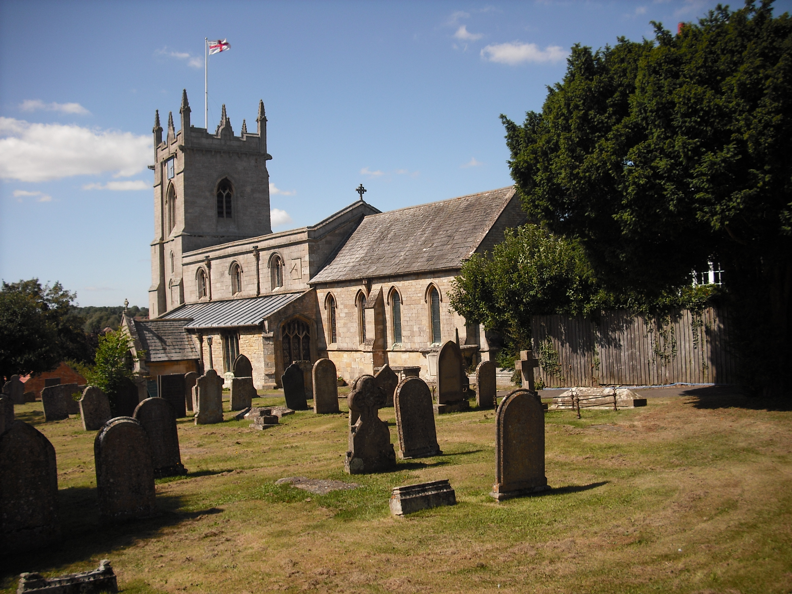 St John the Baptist, Colsterworth - from churchyard, southeast